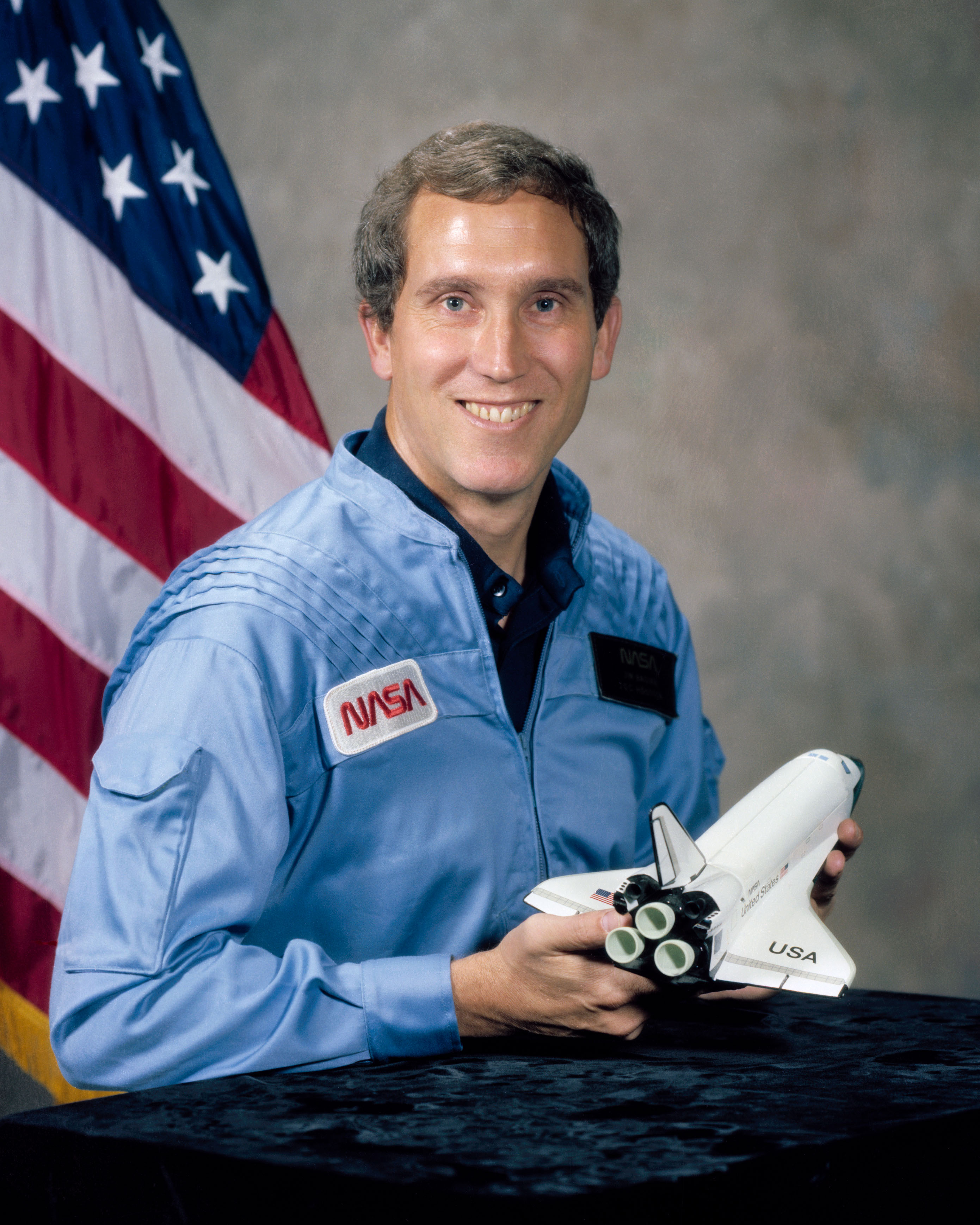 Official portrait of astronaut candidate Michael J. Smith wearing blue shuttle flight suit.